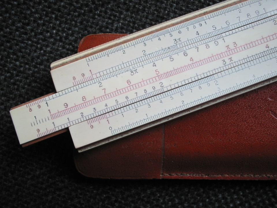 Slide rule Karoly Szabo Photo User:Tamas Szabo